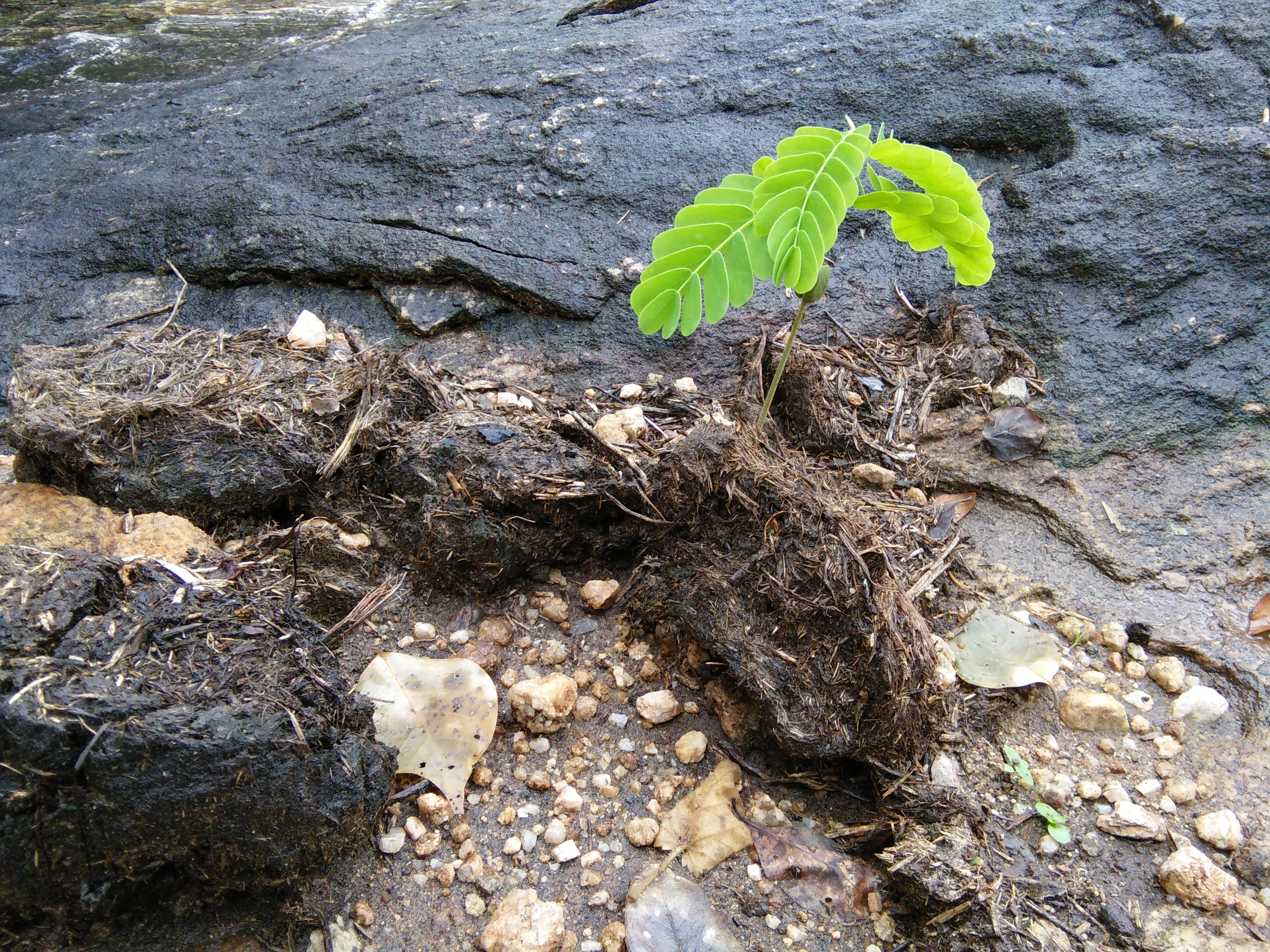 Seedling growing from elephant dung in the Anamalai Hills, India